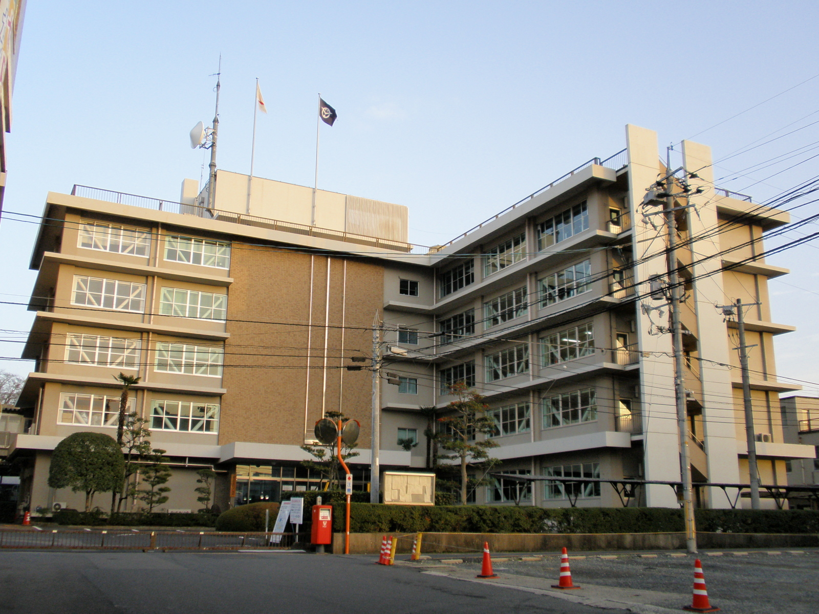 Okayama prefecture Mimasaka general service bureau main building